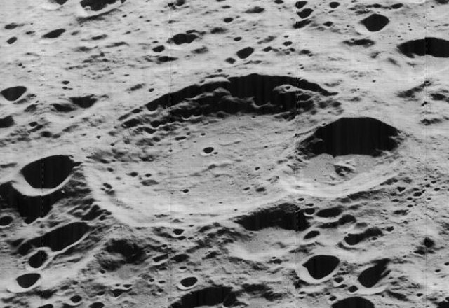 Oblique view of Larmor, on the far side of the moon, facing west.